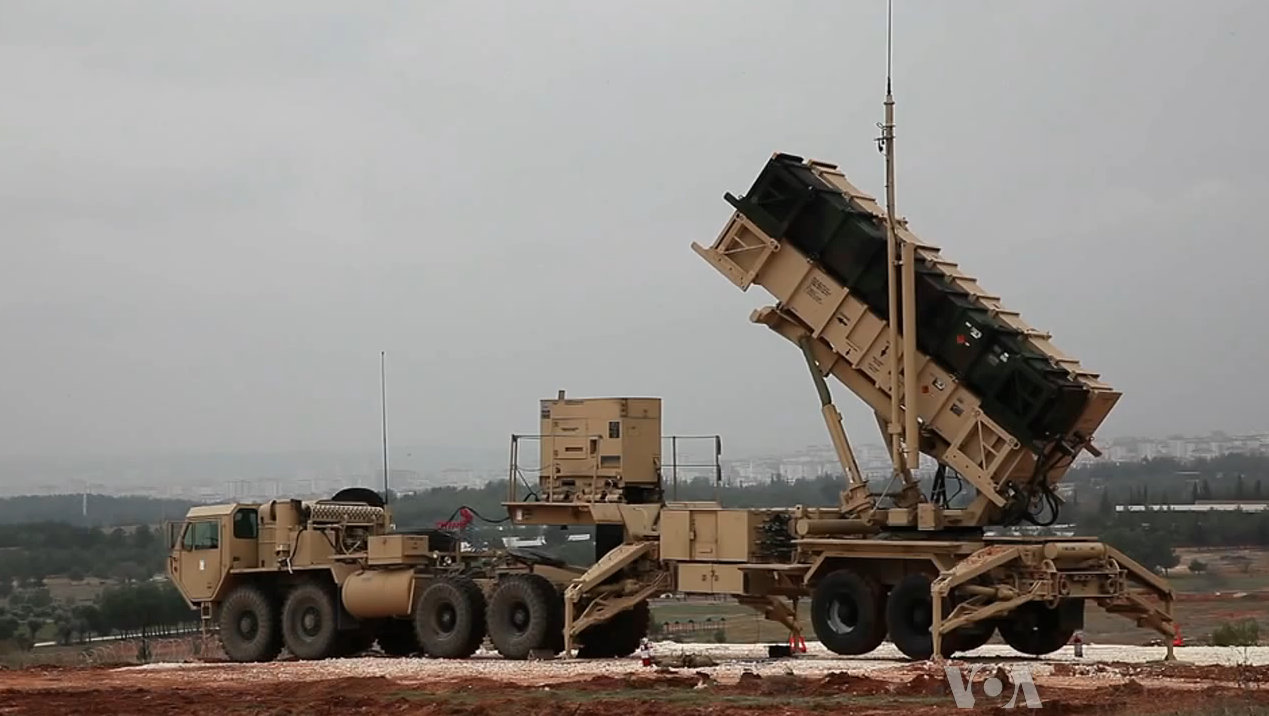 Six batteries of U.S. made, but NATO-backed, PATRIOT missile defense systems have been set up in southeastern Turkey to protect against aerial attacks from war-torn Syria. Single battery in foreground Gaziantep, Turkey in the background.